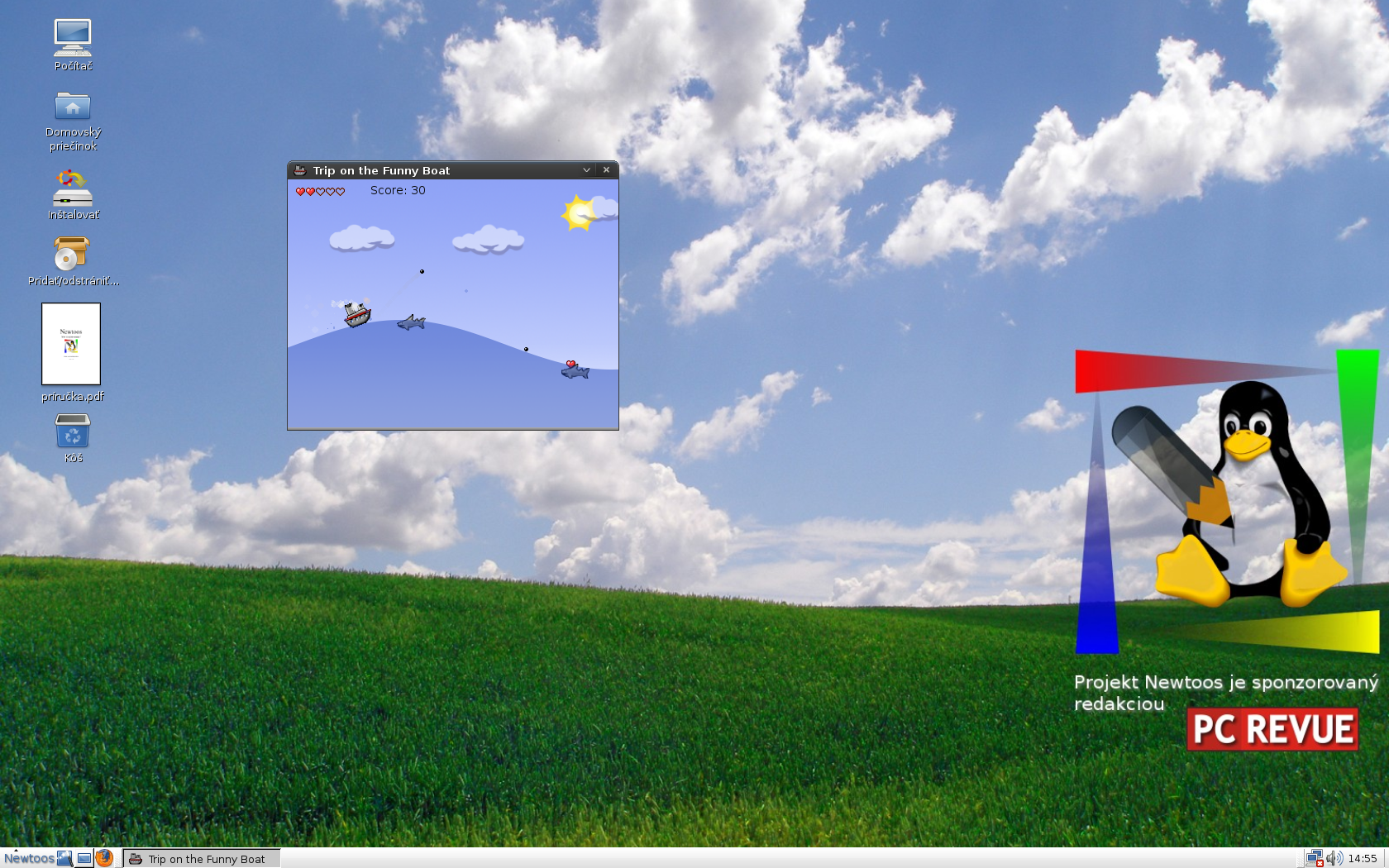 Ubuntu Newtoos desktop